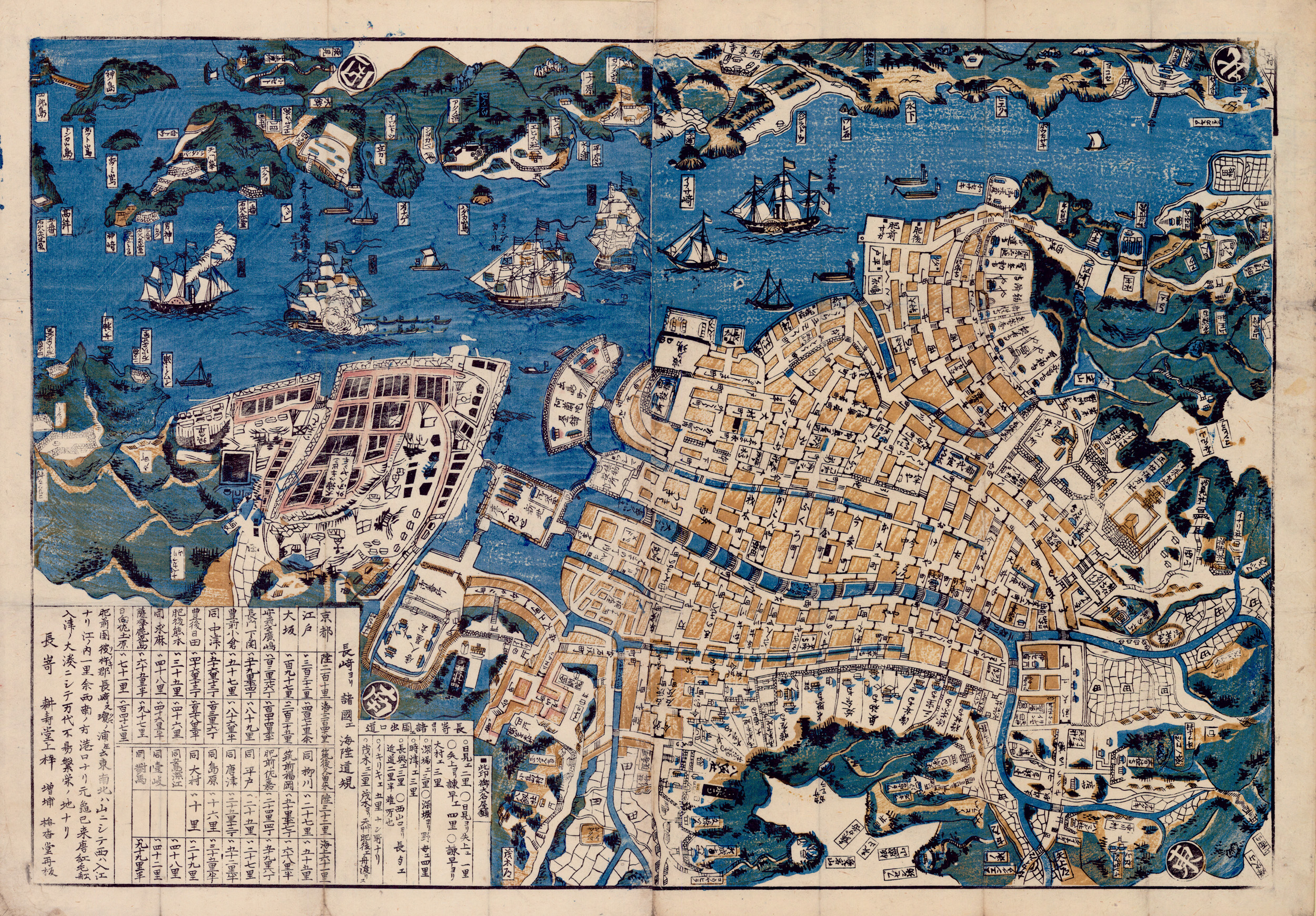 No known copyright restrictions. Please credit UBC Library as the image source. For more information, see Alternative Title: Shinsen Hizen Nagasaki zu Creator: [Unknown] Date Issued: 1860 Source: University of British Columbia Library - Rare Books and Special Collections. Japanese Maps of the Tokugawa Era. Permanent URL